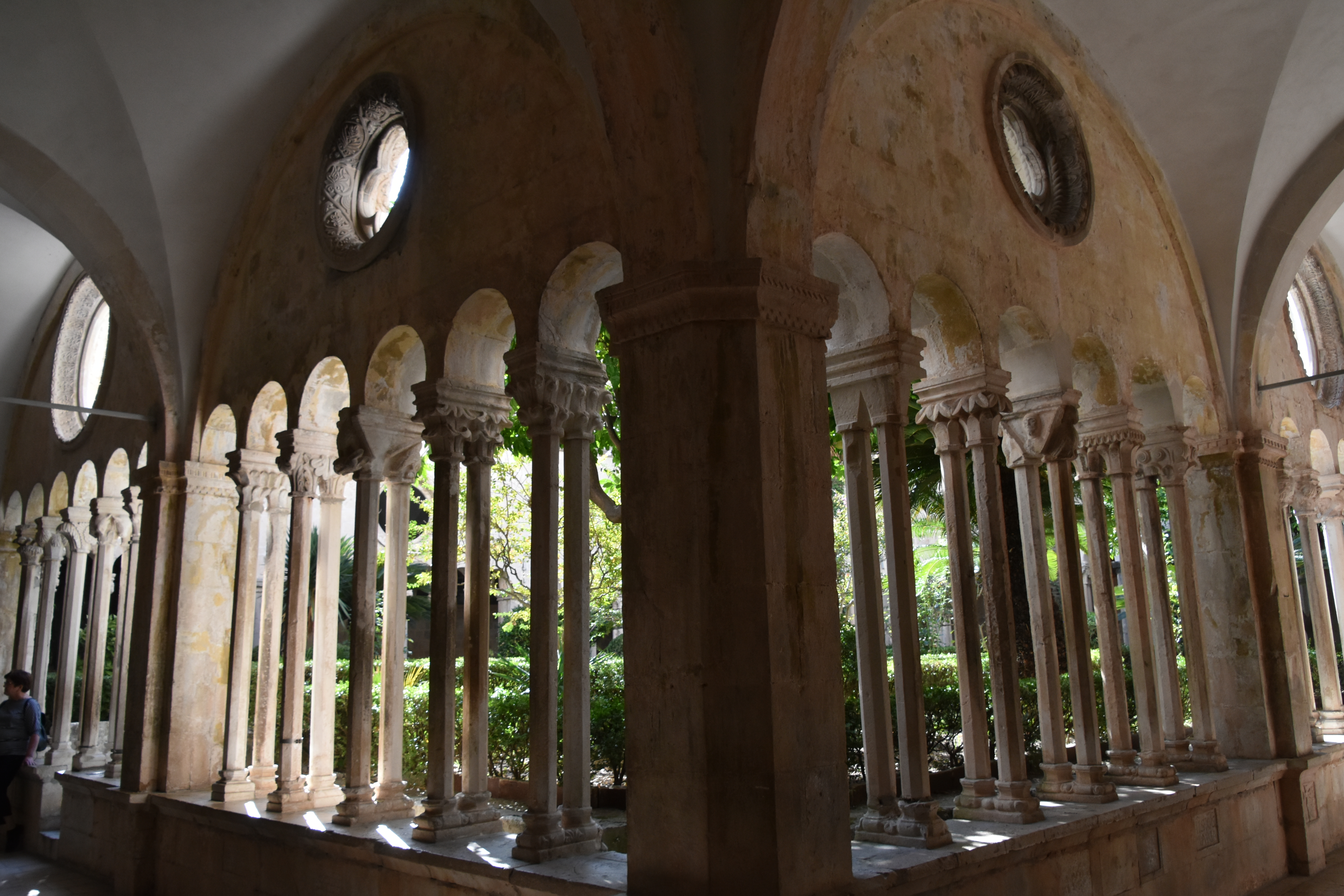 Franciscan Monastery, Dubrovnik, 14th century cloister (5)